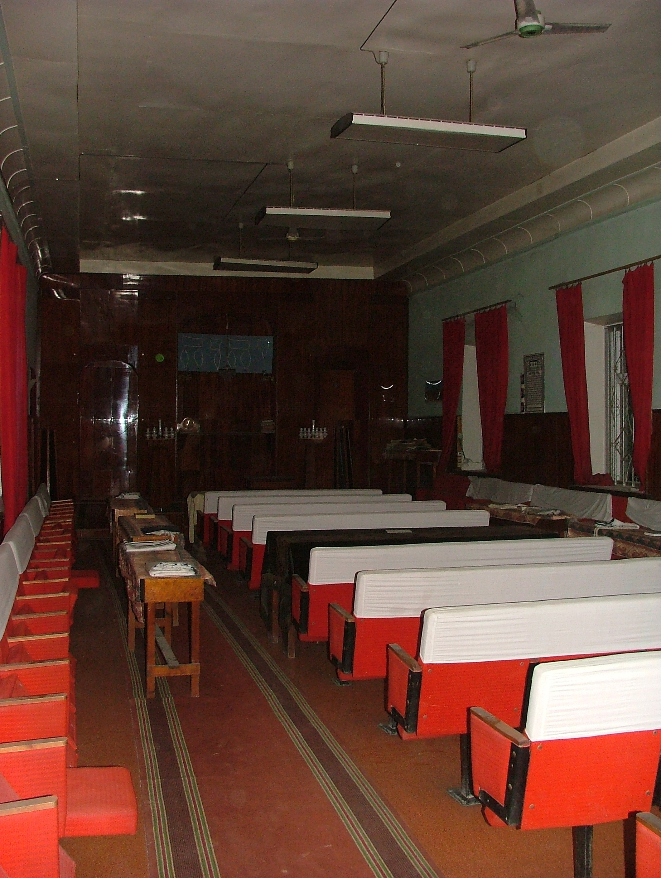 Demolished by the Tajik government in the summer of 2008.